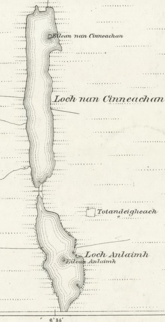 Part of a segment of the Ordnance Survey (OS) map which shows Loch nan Cinneachan and Loch Anlaimh on the island of Coll. The island within Loch nan Cinneachan is shown as Eilean nan Cinneachan—this is Dùn Anlaimh. This OS six-inch 1st edition map was XXXVI of the Argyllshire series. Note the bottom of Loch Anlaimh is cut-off by the bottom of the this map. The map was survyed in 1878 and published in 1881.